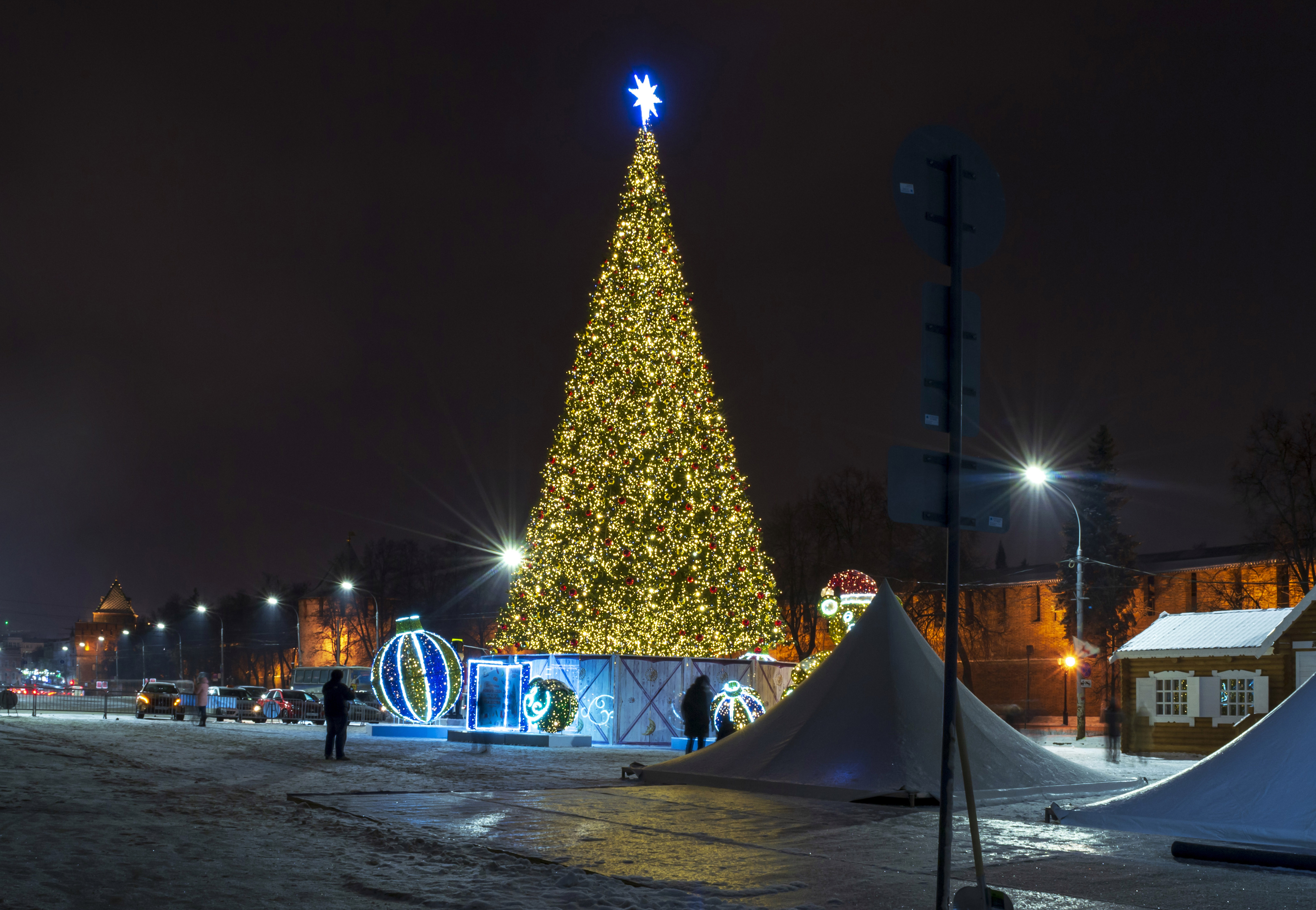 New Year Tree on the Minin and Pozharsky Square, Nizhny Novgorod